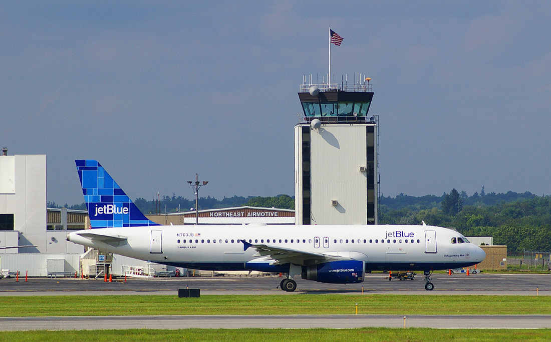 jetBlue "Unforgettably Blue" (Airbus A320) at Portland International Jetport. Photo taken from public property.